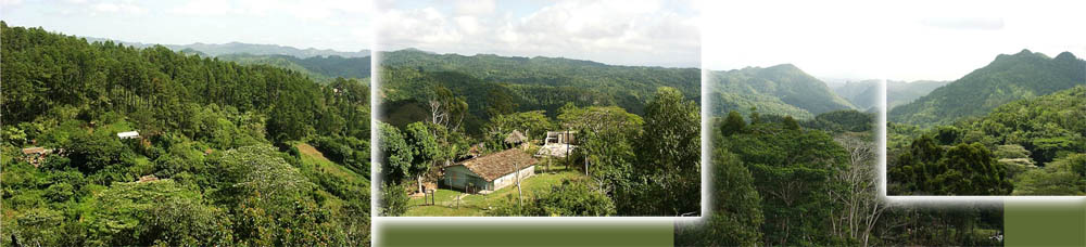 Wilder's stock, Topes de Collantes, Cuba